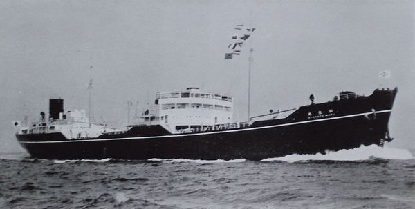 Iino Line, Kawasaki type tanker Kyokutō Maru